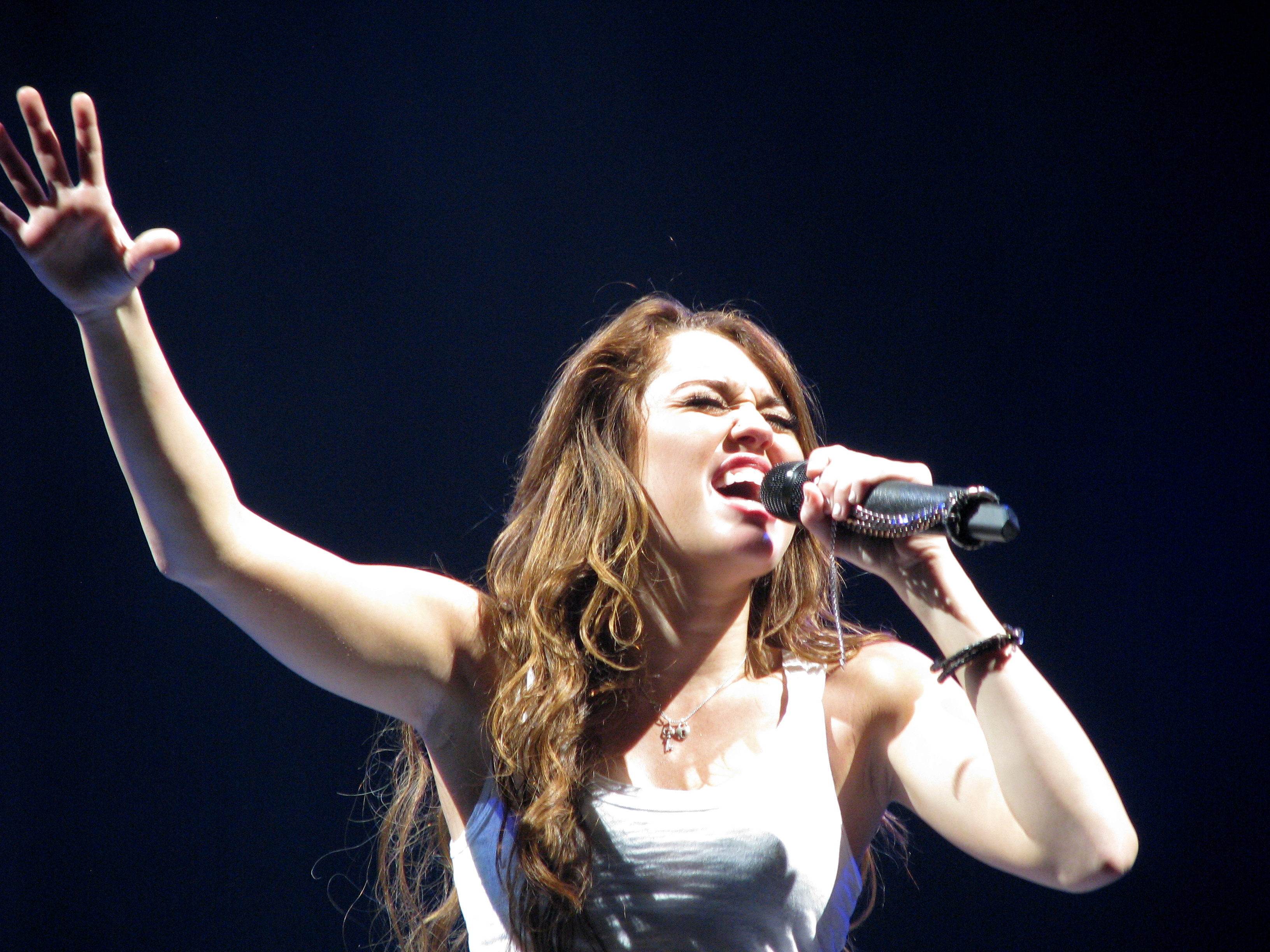 Miley Cyrus performs during her Portland, Oregan stop of her Wonder World Tour